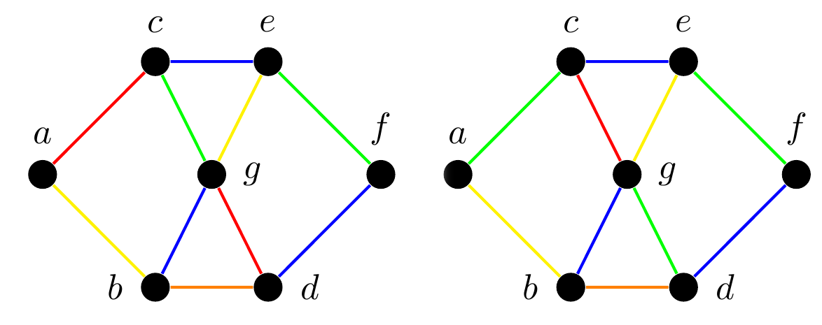 Illustrates the process of inverting a bicolored path in the Misra and Gries edge coloring algorithm